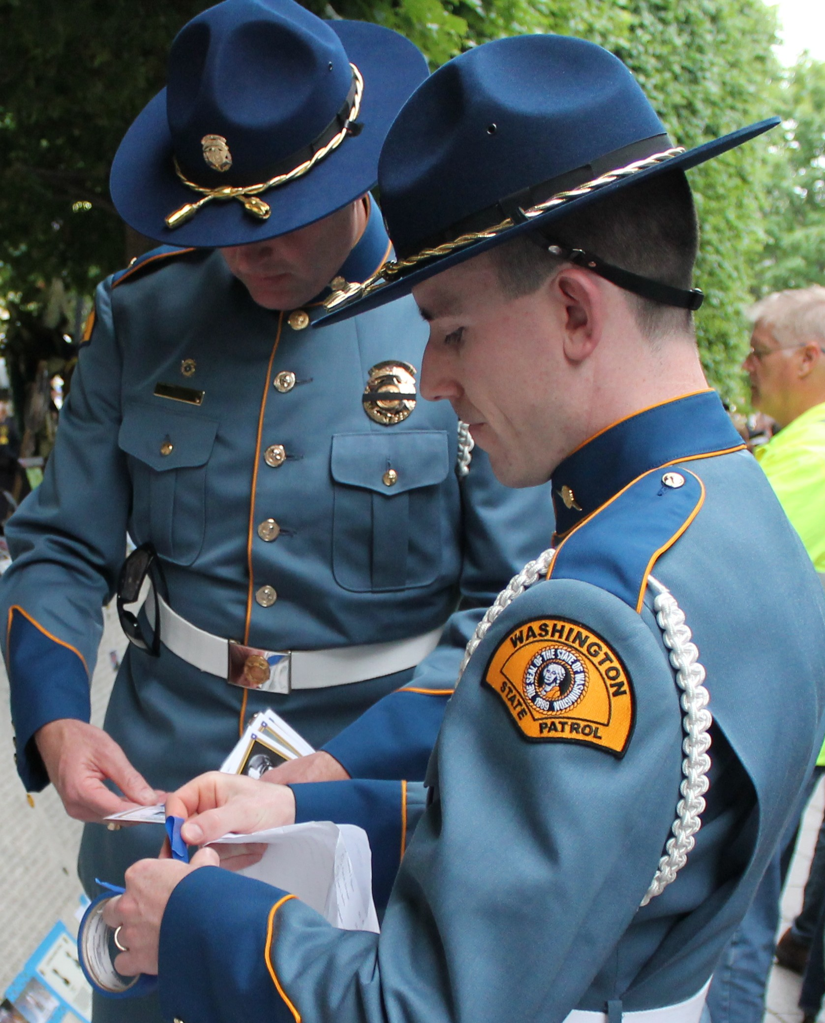 2012 National Police Week: Assemblance Before 24th Annual Candlelight Vigil at East Pathway to Remembrance of National Law Enforcement Officers Memorial in 400 block of E Street, NW, Washington DC on Sunday evening, 13 May 2012 by Elvert Barnes Photography